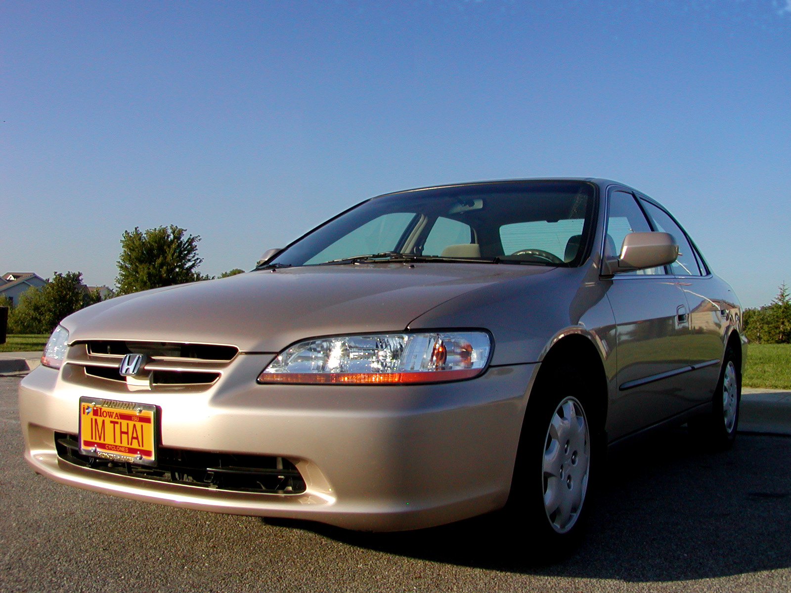 Honda Accord LX 2000, it's my car and I shot this photo myself.